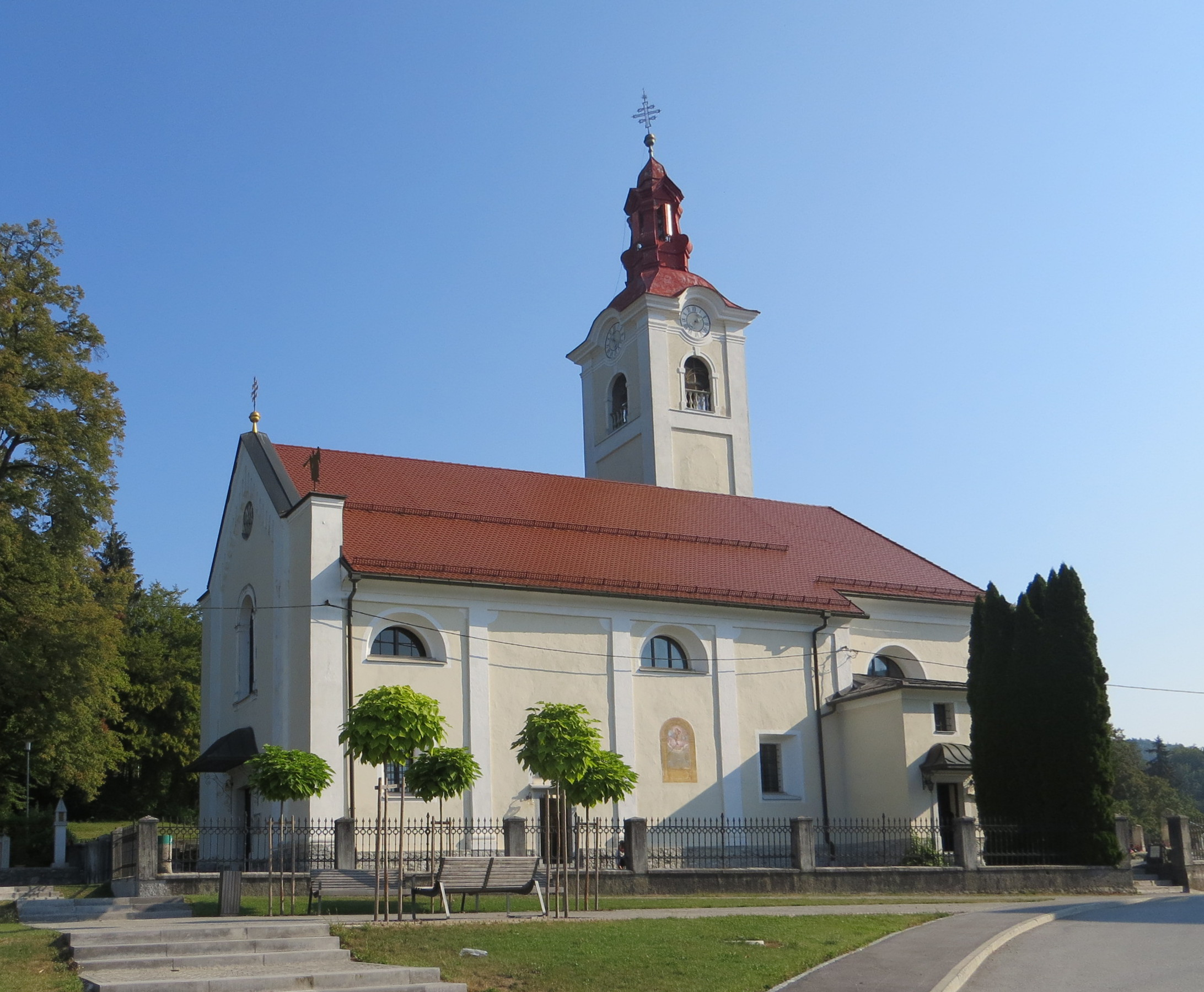 Assumption Church in Brdo pri Lukovici, Municipality of Lukovica, Slovenia